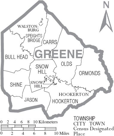 Map of Greene County, North Carolina, United States with township and municipal boundaries